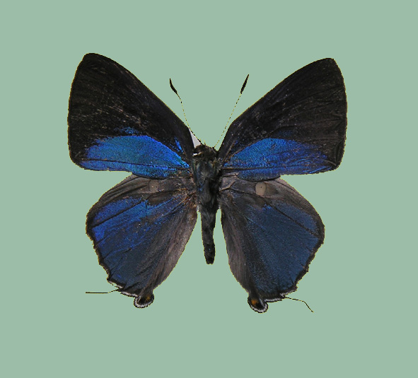 Rapala tomokoae, male, upperside